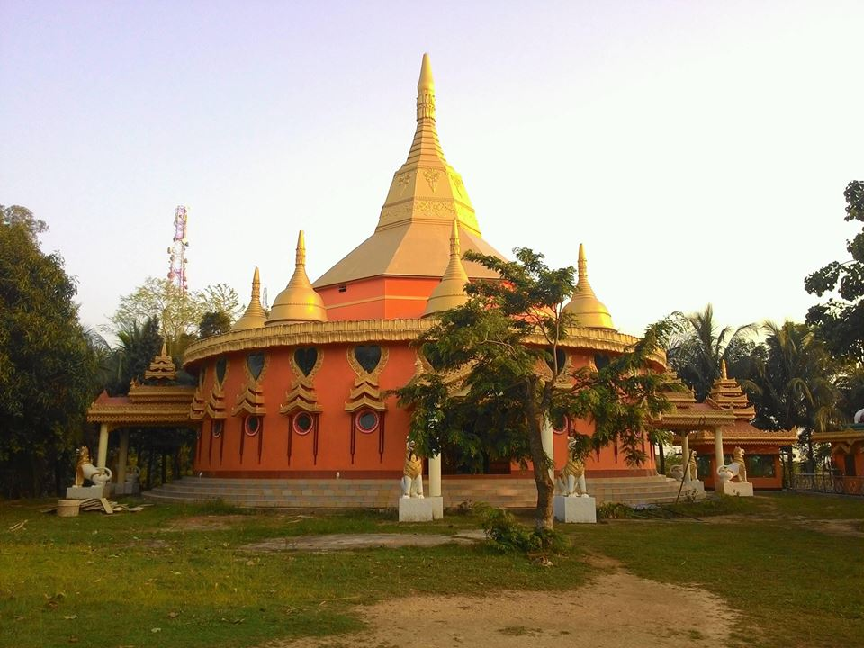 Alok Nabagraha Dhatu Cetiya is a sacred Buddhist monastery situated Alutila, Khagrachari Hill district,Bangladesh. The Cetiya founder by Venerable Chandramuni Mahathera.